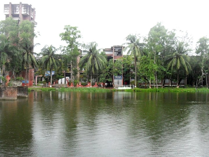 Front rever